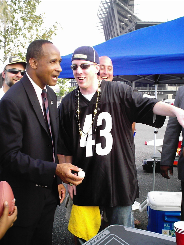 Lynn Swann campaigning in Philadelphia on 2006-08-25